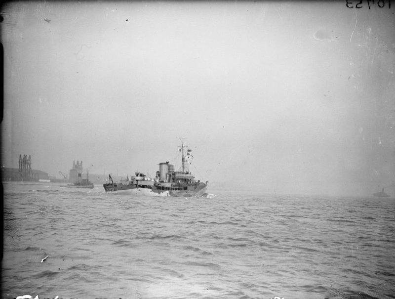 Hmcs Prescott Underway.